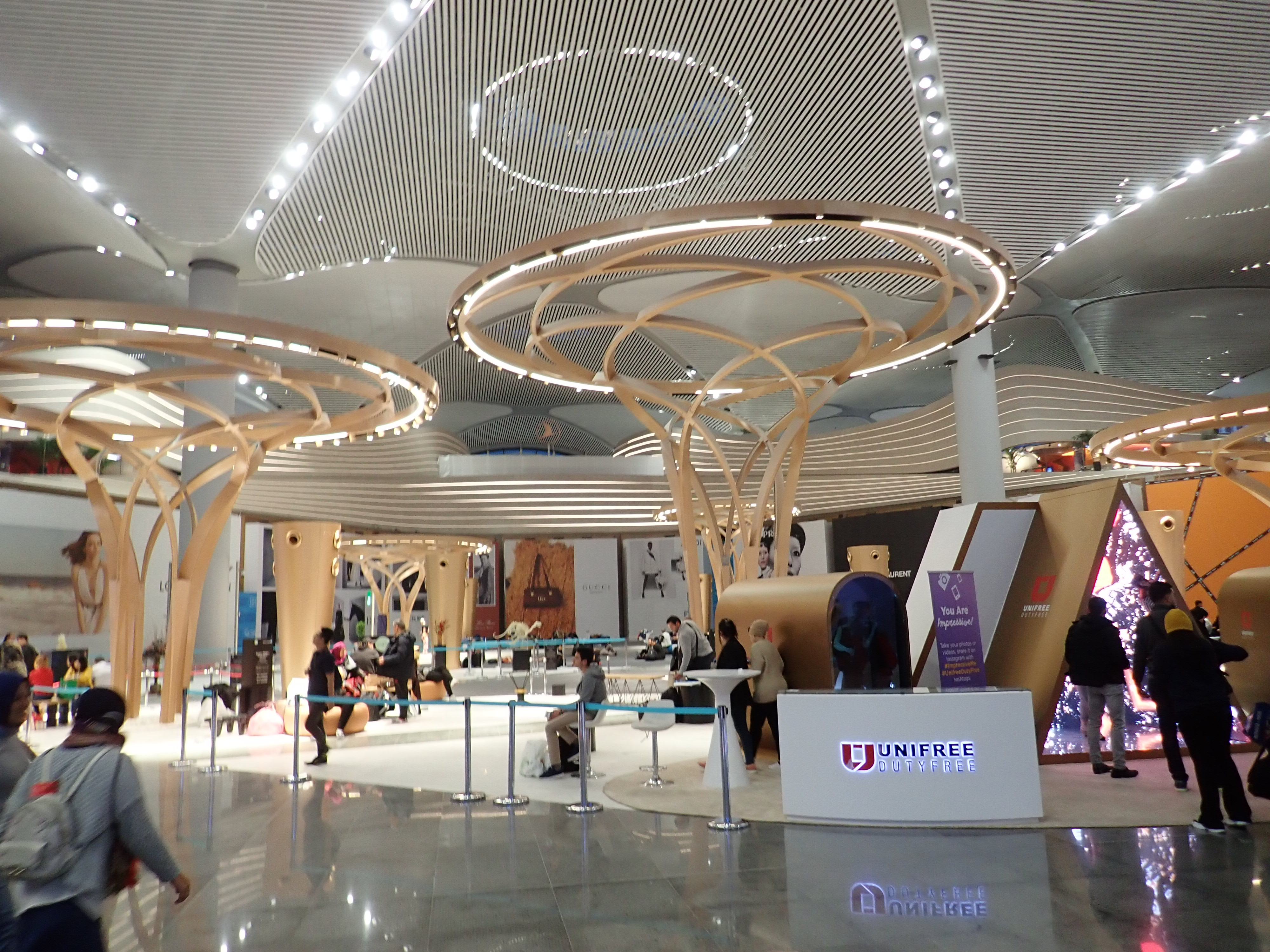 Istanbul Airport (ISL) inside